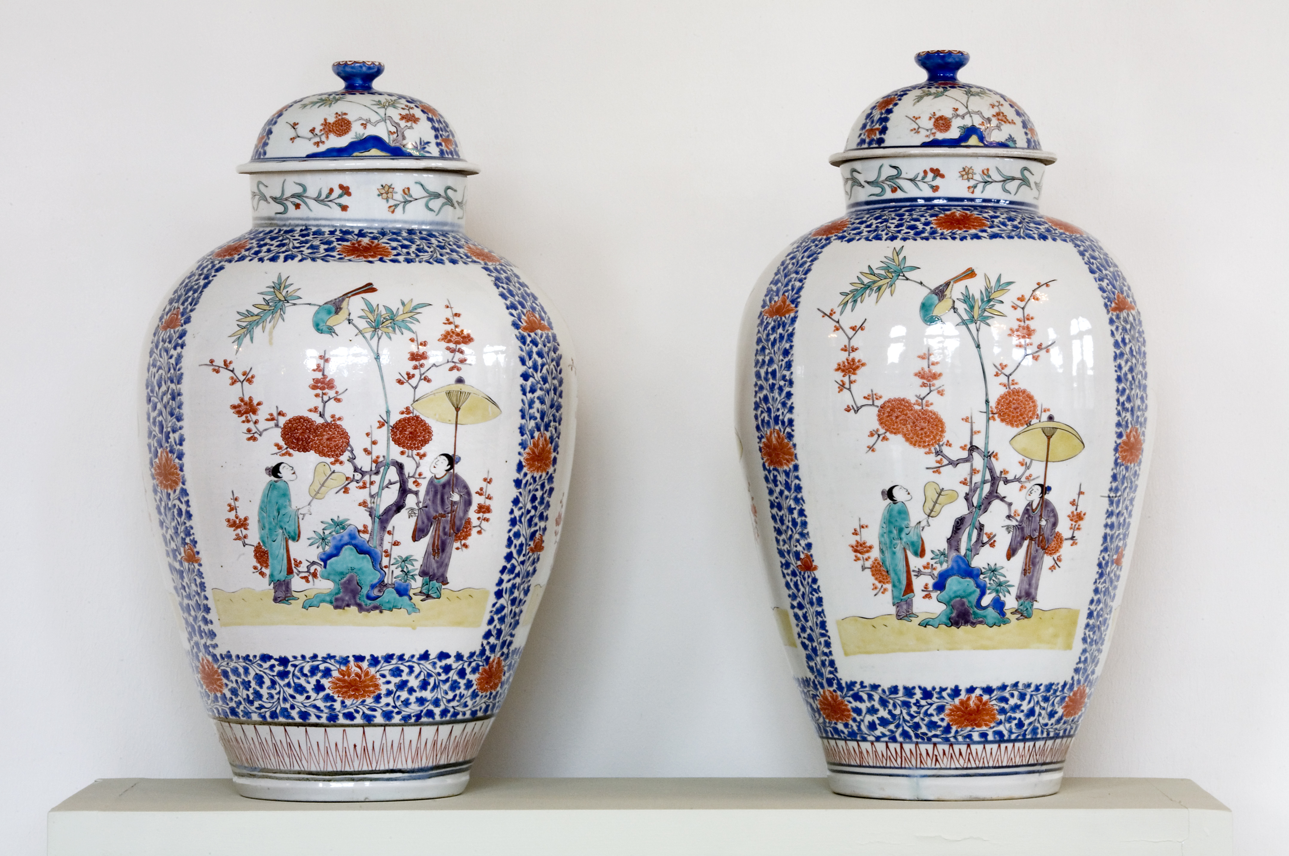 Japanese porcelain vases Kakiemon style (1680-1700) Porcelain Museum in the Art Collection, Dresden, Germany